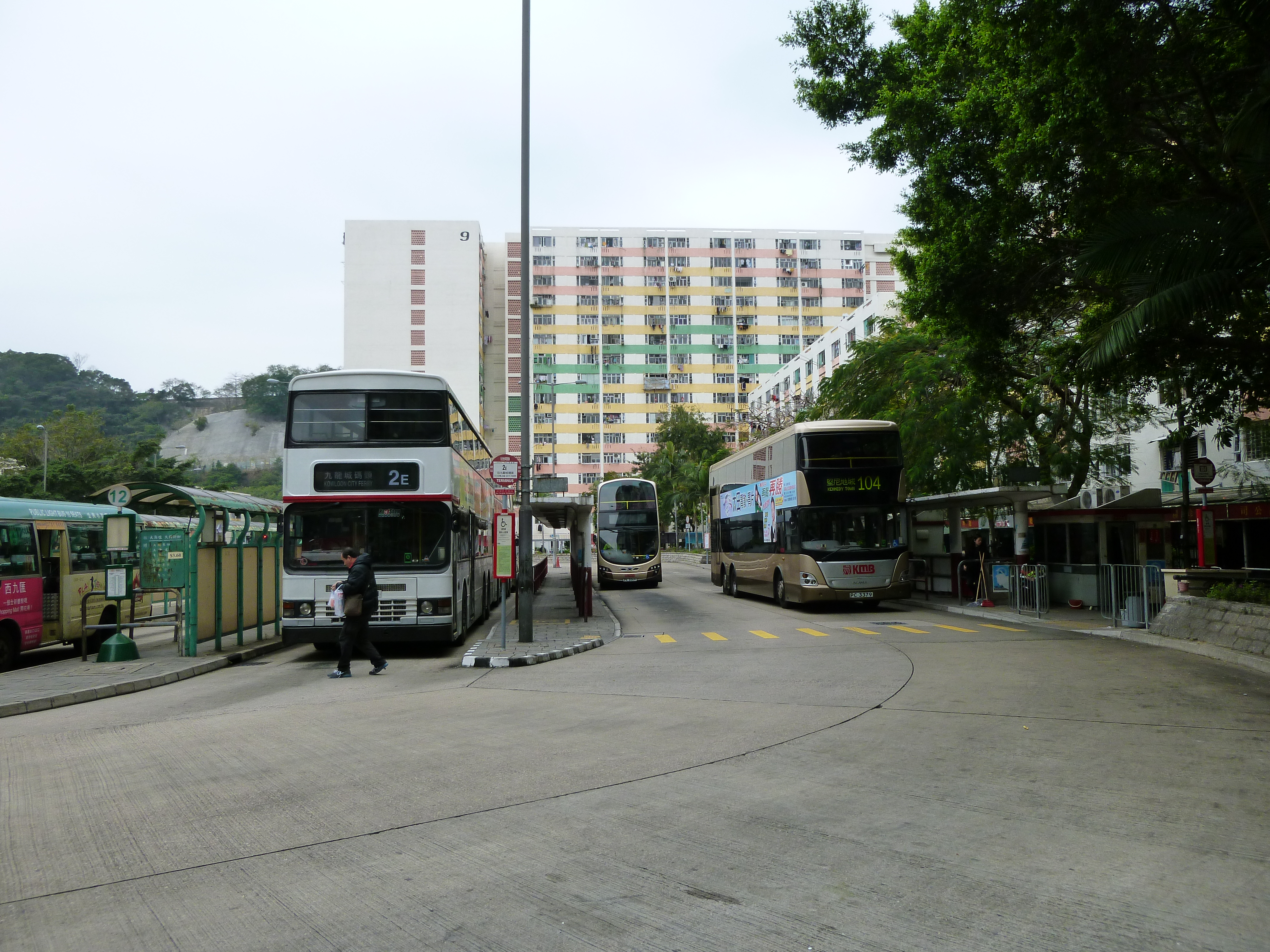 Pak Tin Bus Terminus (Pak Tin Estate, Pak Wan Street, Shek Kip Mei, Sham Shui Po, Kowloon, Hong Kong)